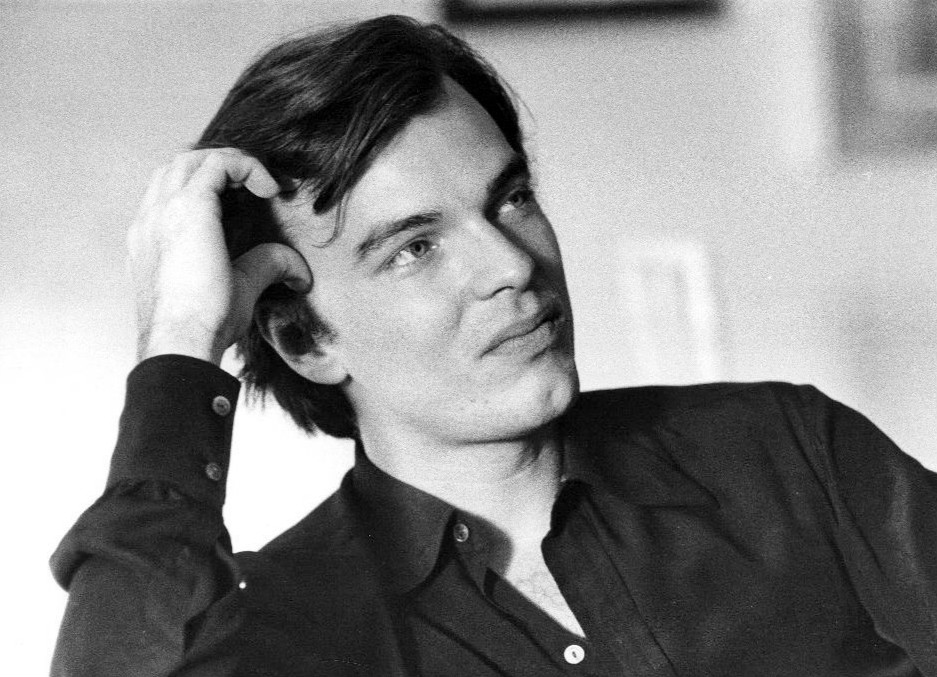 Photo of actor Edward Albert. This is the son of actor Eddie Albert.